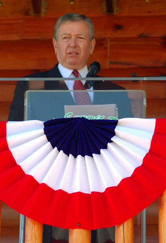 WESTCLIFFE, Colo. -- Former U.S. Attorney General John Ashcroft delivers the key note speech at the Eagles Summit Ranch dedication ceremony on Sept. 11 in Westcliffe, Colo. (U.S. Air Force photo/Lorna Gutierrez)